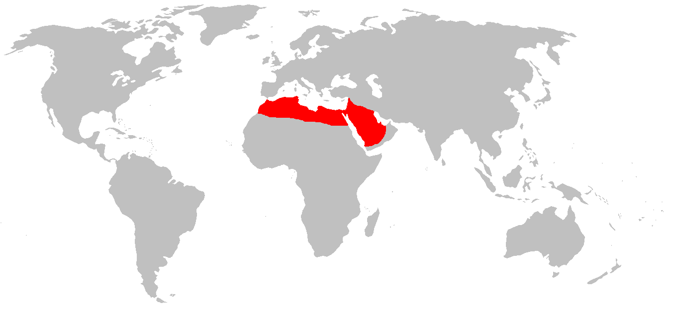 Distribution of the Fennec fox